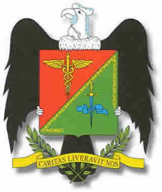 Escudo de Junín